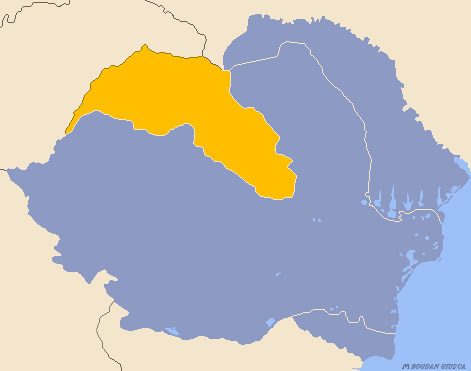 Vienna Diktat - Northern Transylvania (yellow) given to Hungary